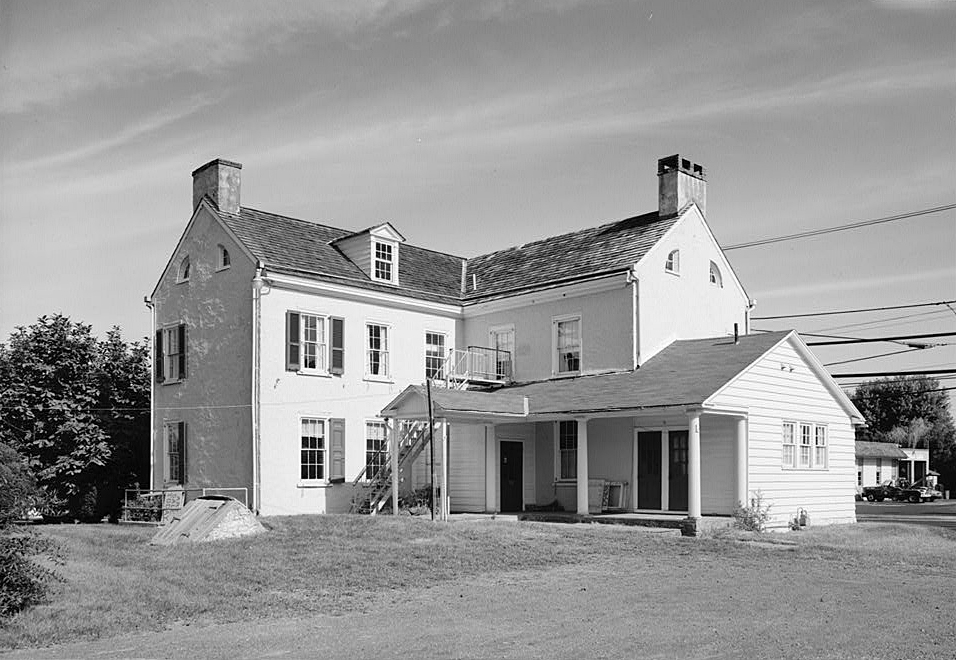 Craven Hall in Warminster, Pennsylvania. Perspective view of southeast (rear) showing entry into root cellar in foreground.